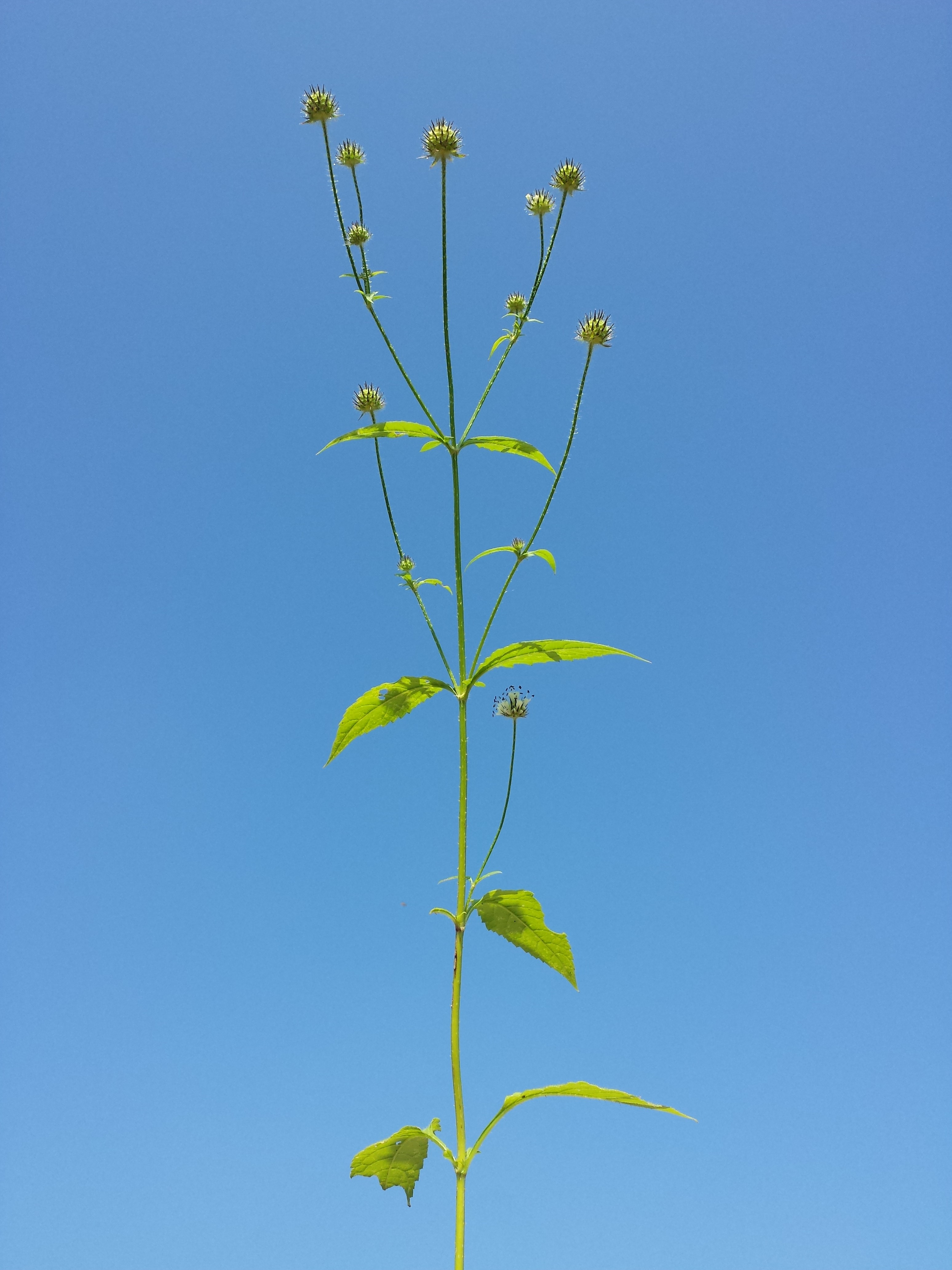 Habitus Taxonym: Dipsacus pilosus ss Fischer et al. EfÖLS 2008 ISBN 978-3-85474-187-9 Location: next to Hatzenbach, district Korneuburg, Lower Austria - 225 m a.s.l. Habitat: quarry